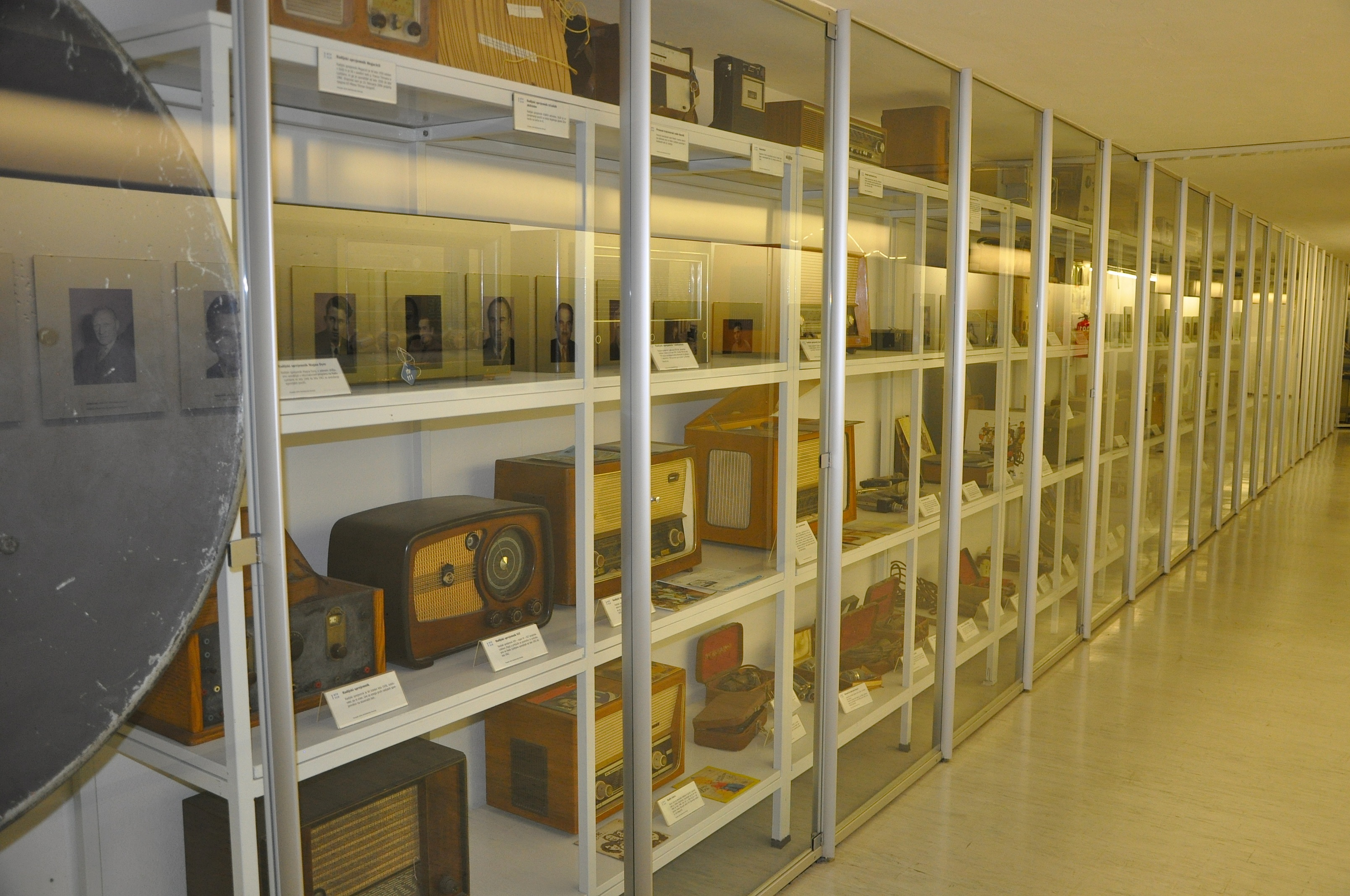 RTV Slovenia Museum